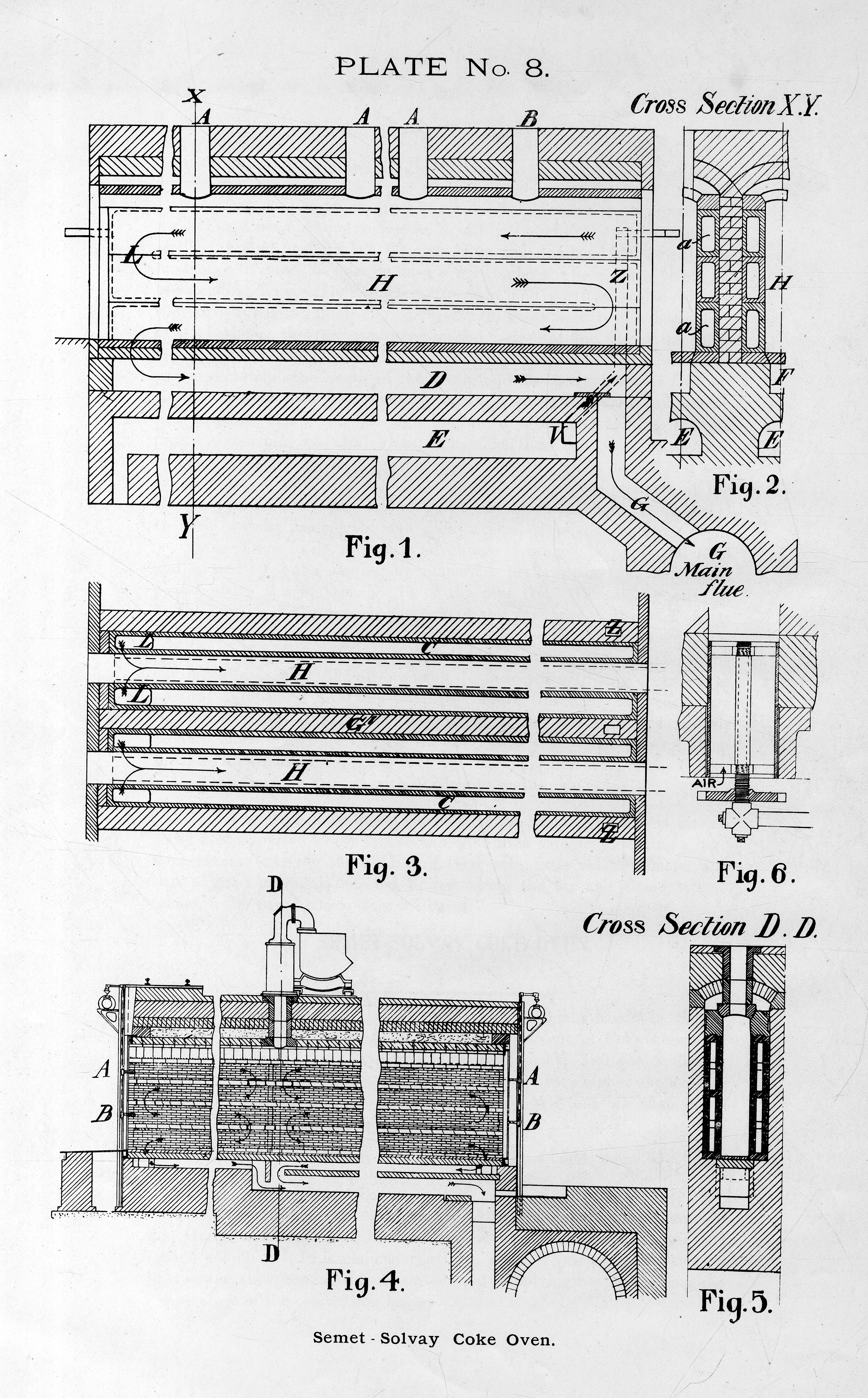 This upload is from a volume in the ownership of the North of England Institute of Mining and Mechanical Engineers at Newcastle Upon Tyne The actual volume is out of copright by virtue of age. The scan would be in copyright which is waived. The Institute librarian Jennifer Hillyard has freely and fully consented to this upload to Wiki Commons which has been undertaken at the Institute.